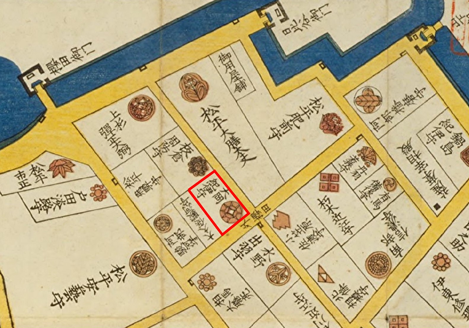 REsidence of Ôoka clan at Edo